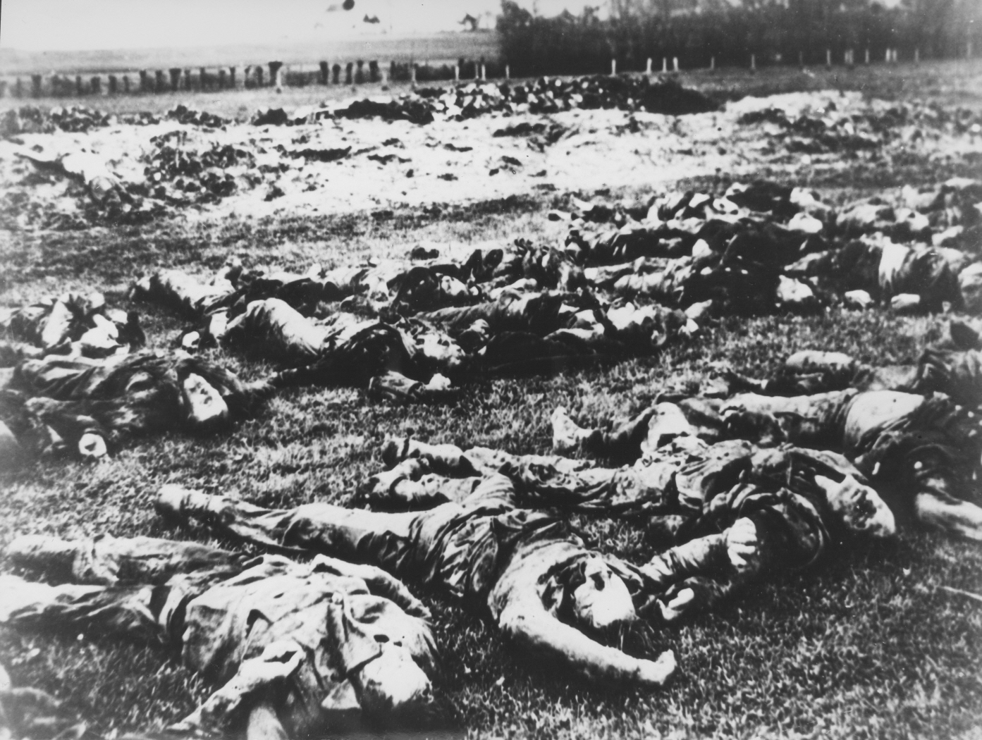 Victims of the Gudovac massacre exhumed by German investigators, late April 1941.